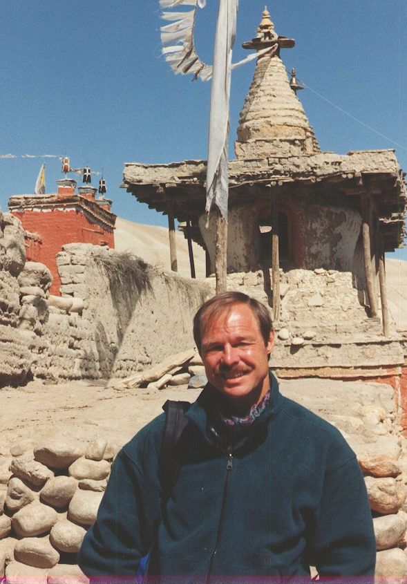 Peter Cavelti in the Kingdom of Mustang, 1992